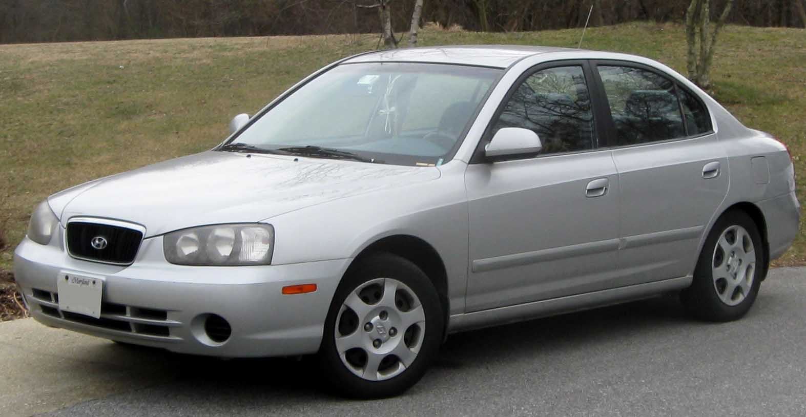 2001-2003 Hyundai Elantra photographed in Fort Washington, Maryland, USA.